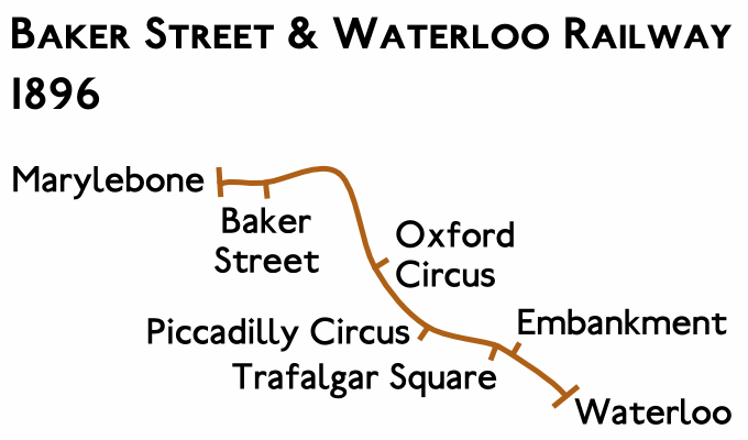 Geographic Map of the Baker Street & Waterloo Railway, 1896.